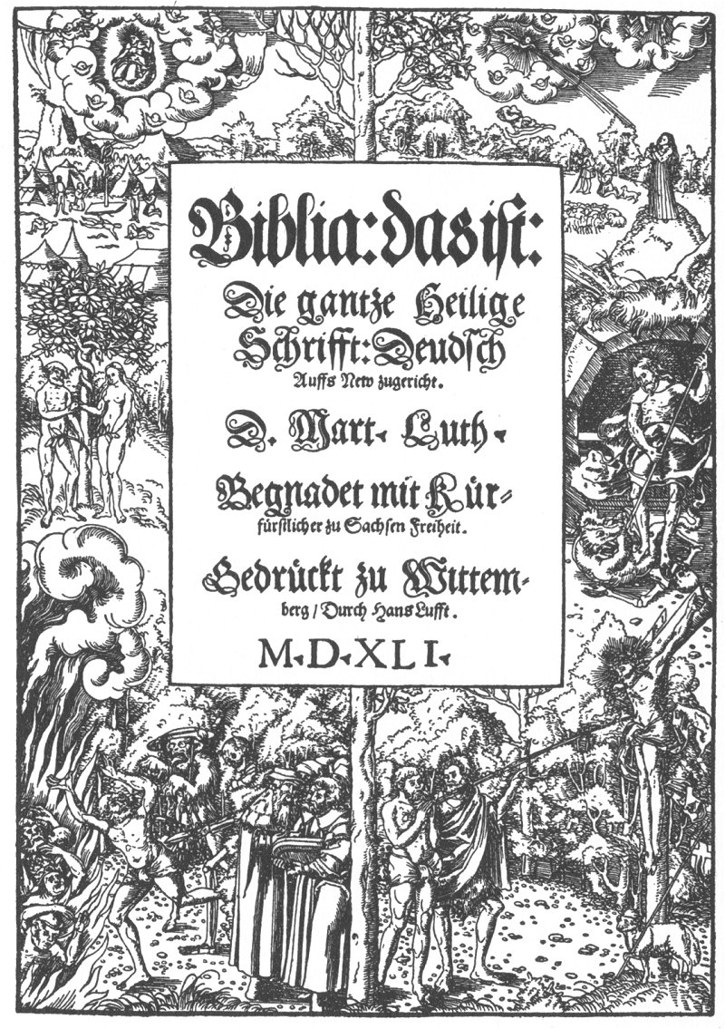 Lucas Cranach the Younger: Title woodcut for the 1541 of Martin Luther's German Bible